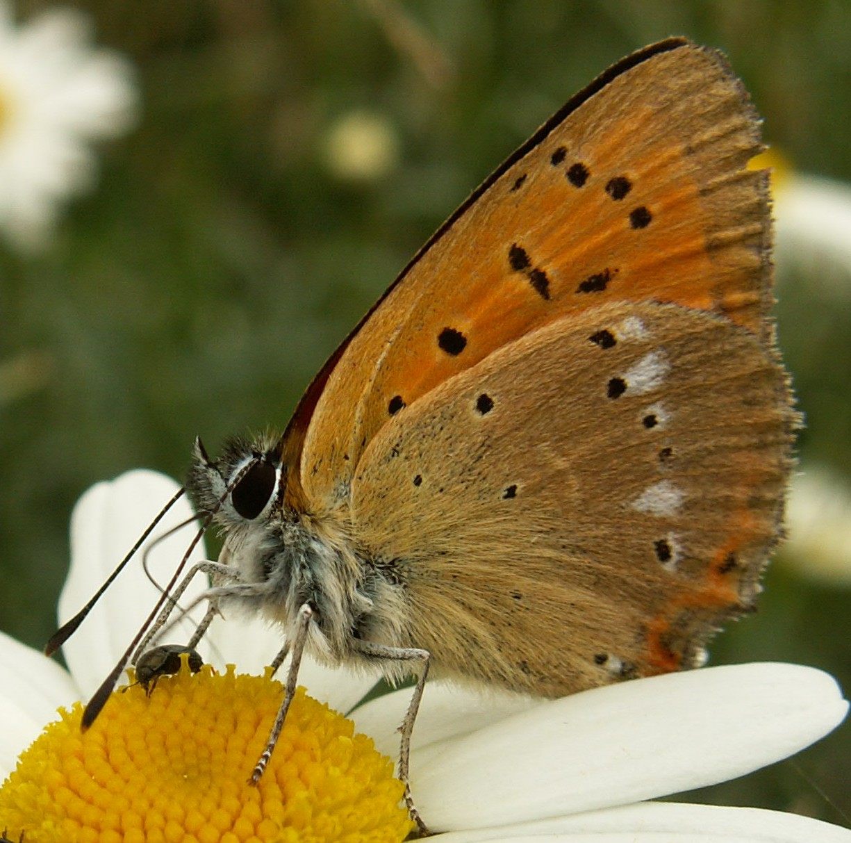 Lycaena virgaureae, male. Meadow near Kodrabek, Wolin commune, Western Pomerania, NW Poland